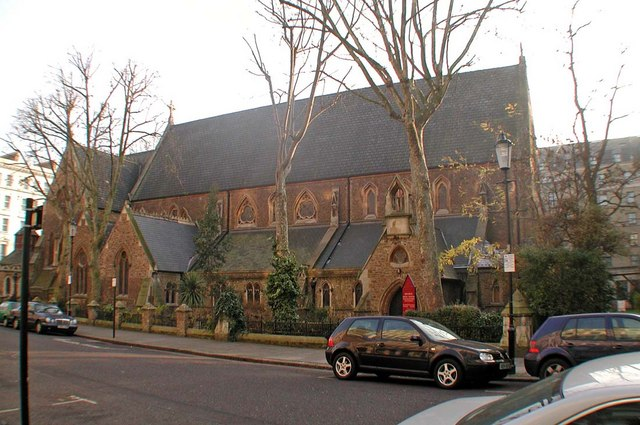 St Stephen, Gloucester Road, London SW7